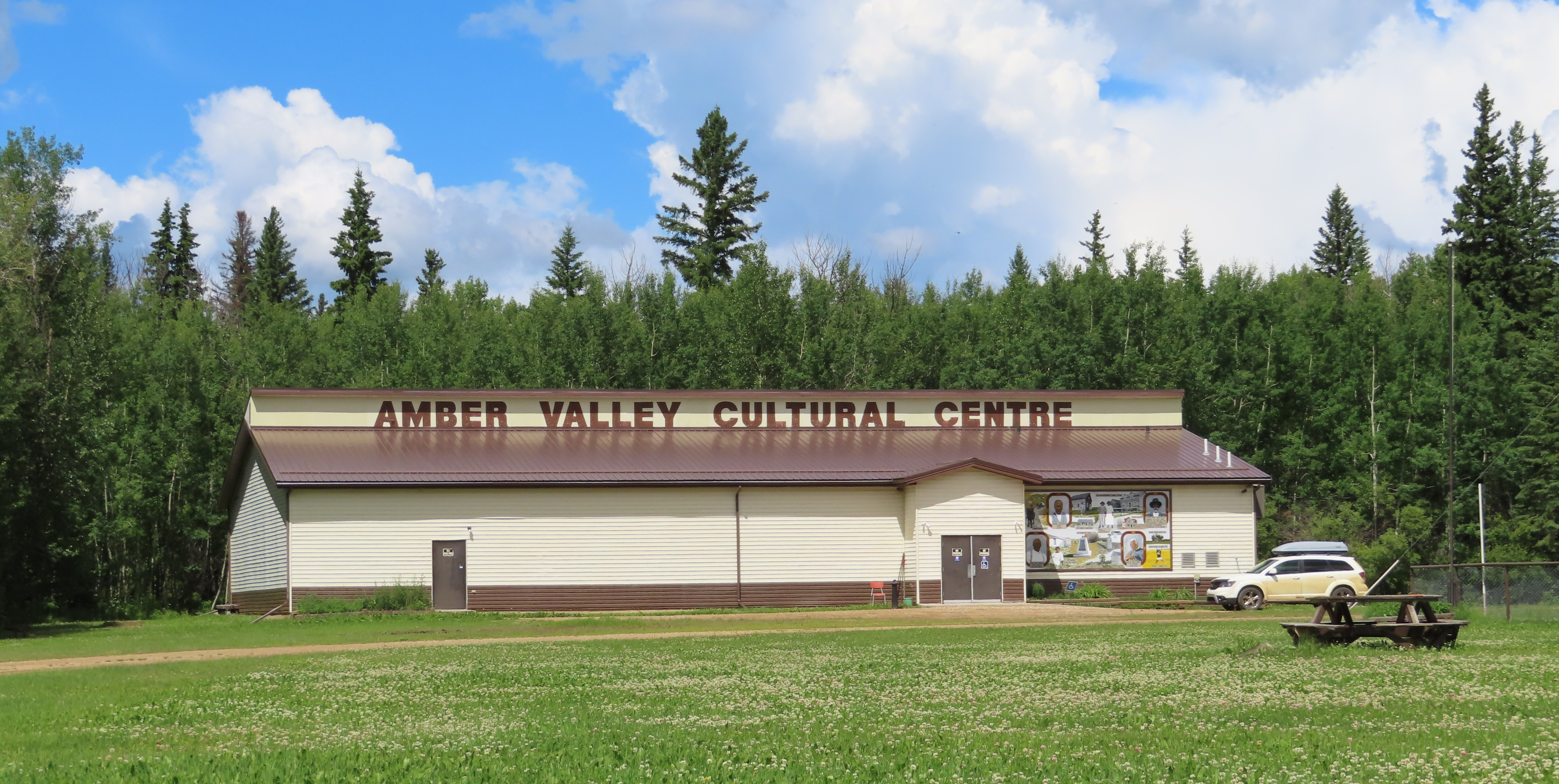 Cultural Centre and hall in Amber Valley, Alberta. Site of a historical African-American homesteading community.